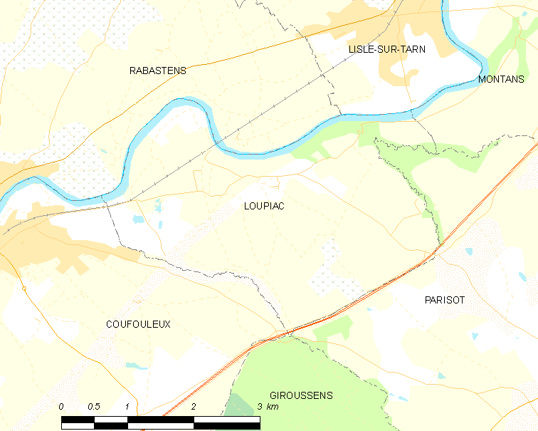 Map of French municipality Loupiac